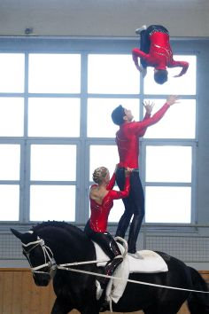 Team Köln freestyle